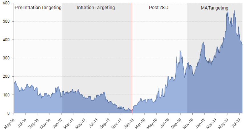 EMBI for Argentina before and after 2017-12-28